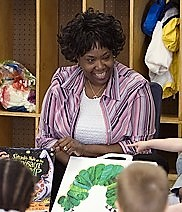 The Week of the Child took place at NASA Langley's Child Devleopment Center (LCDC) April 23 thru April 27. Joycelyn Harrison reads "Saturday Night at the Dinosaur Stomp" to seven children in the stegasaurus room. Teacher, Vivian Hankerson is pictured to her right. Credit: Sean Smith/NASA